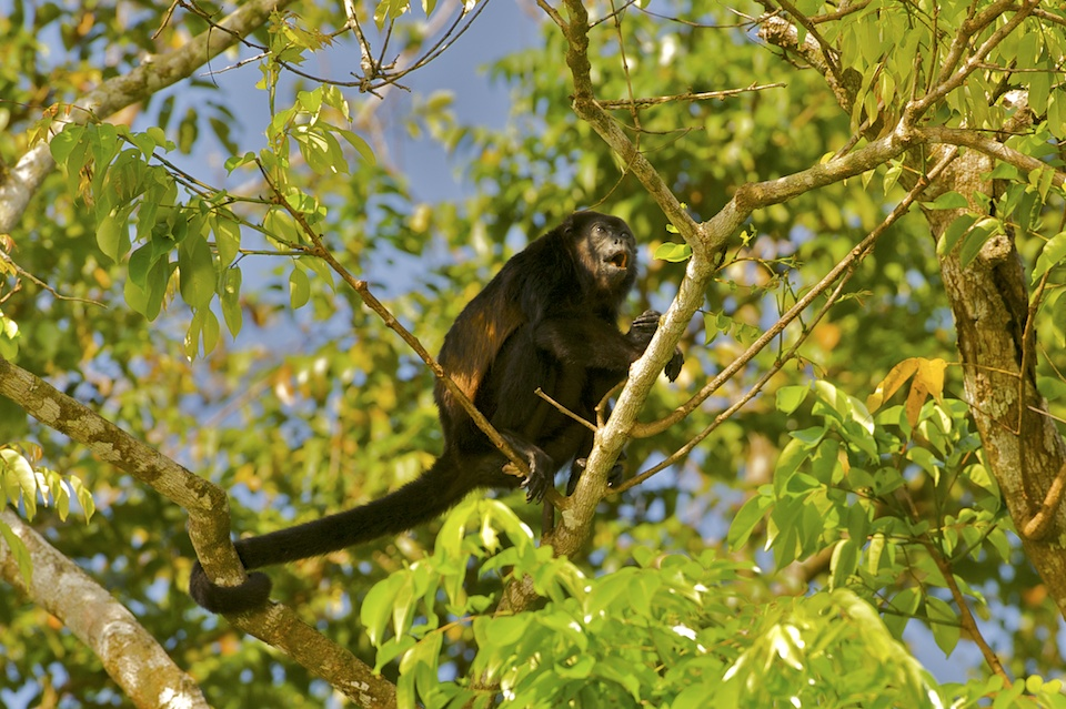 A Mantled Howler Monkey (Alouatta palliata) calling, in Tortuguero, Costa Rica